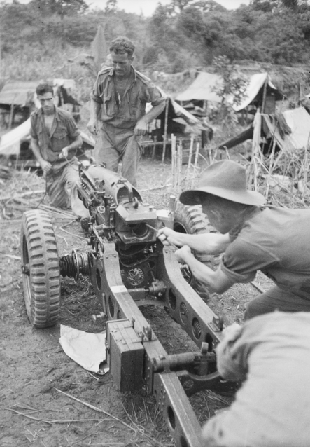 A 75 mm gun operated by the Australian 2/1st Anti-Tank Regiment in support of the 2/7th Infantry Battalion around Kiarivu, August 1945